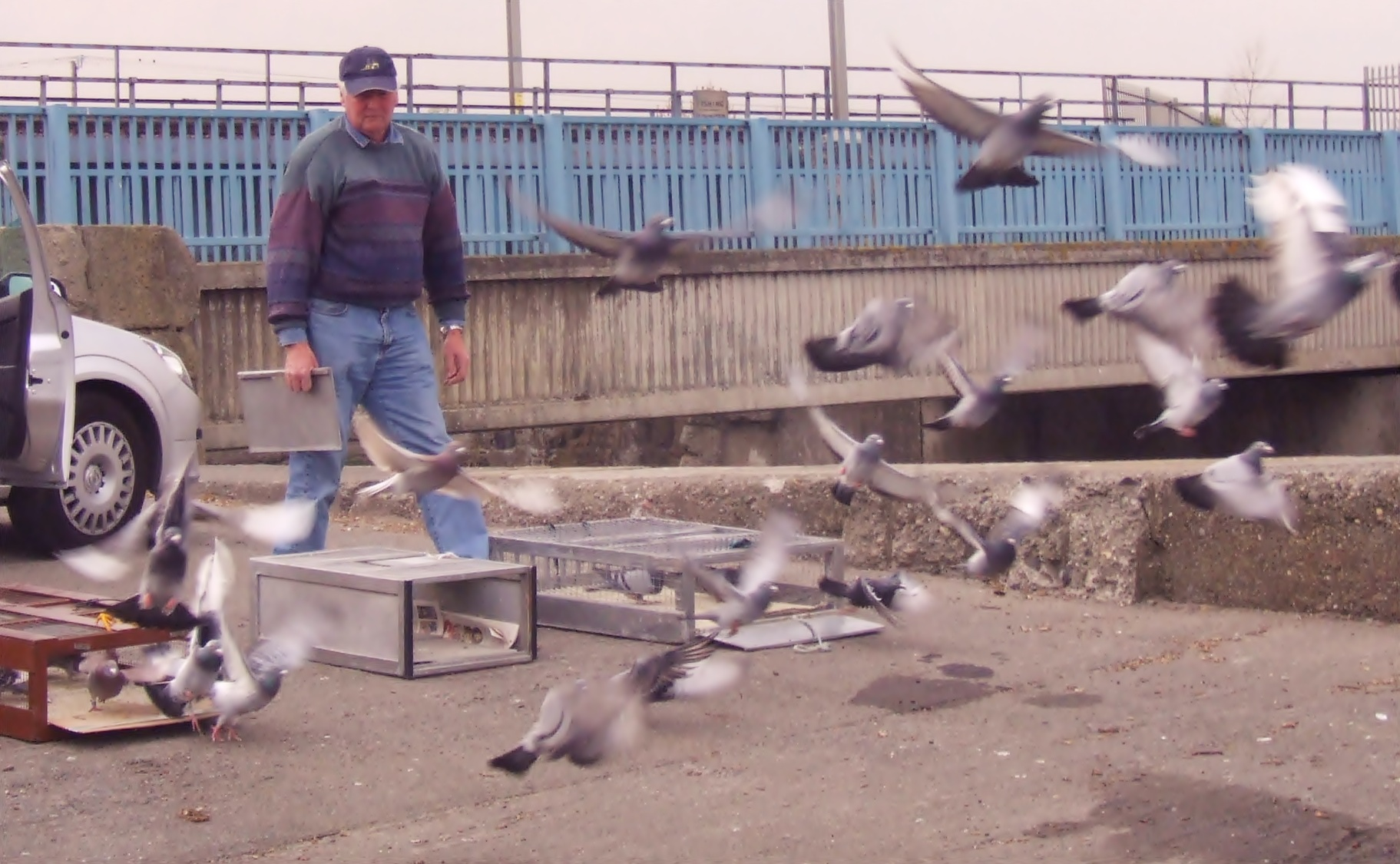 Clontarf Pigeon Club releasing racing pigeons in Bray, Co. Wicklow, Ireland.